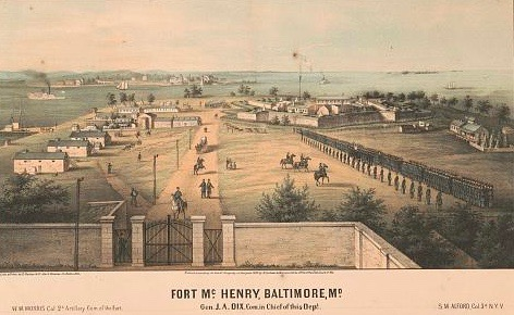 Lithograph of Fort McHenry, Baltimore, Maryland